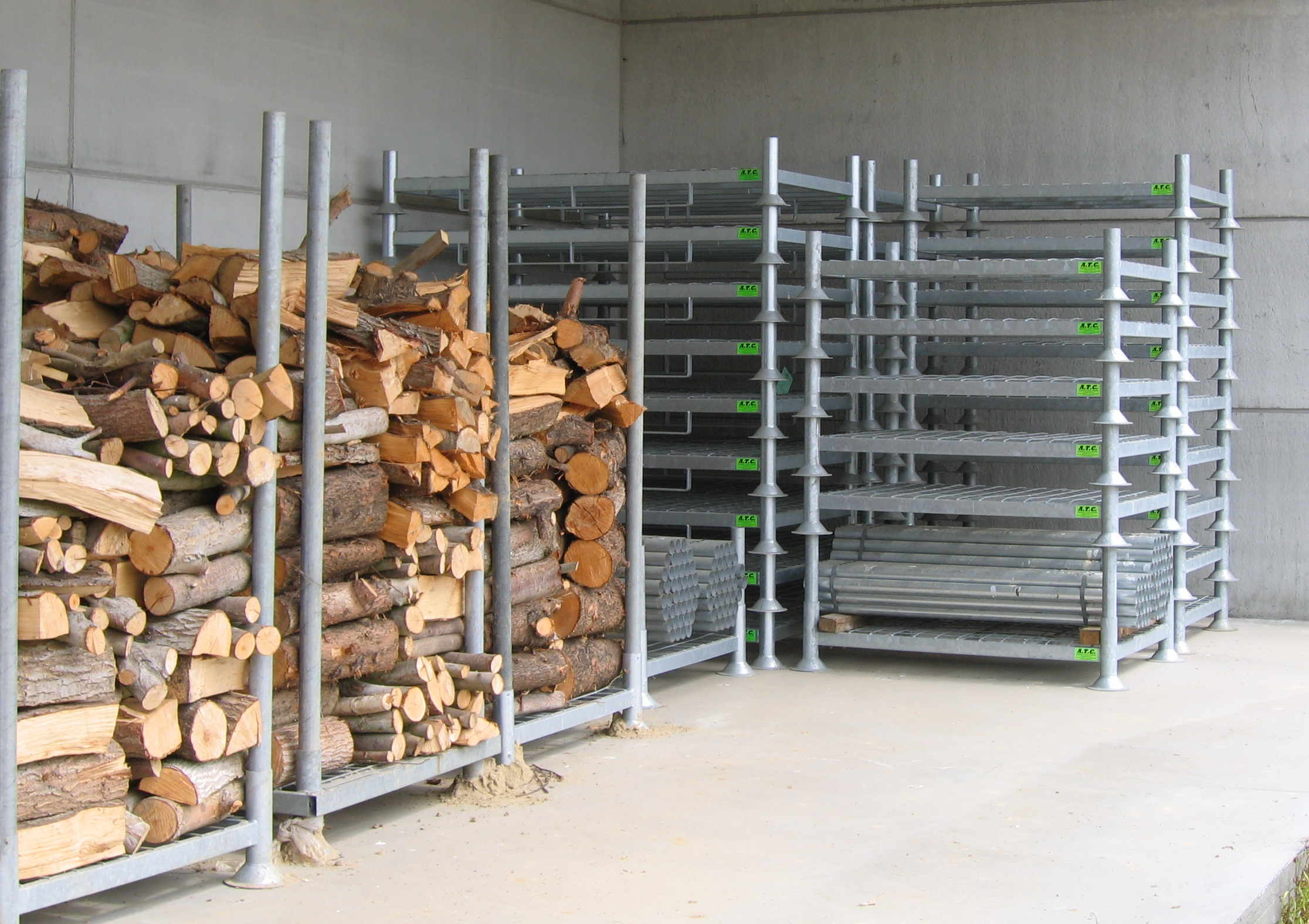 A picture of metal palets, used here to store wood (and to quickly move them by frontloader-truck, whenever necessairy). The palets are also frequently used for storing trees (eg in tree nurseries, after they have been gathered and are waiting to be sold in humid hangars). Note the removable beams which allow easy stacking and allow (when deployed) to hold the trees in place.